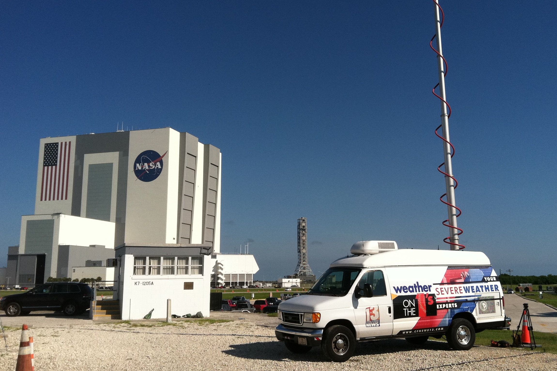 Central Florida News 13 broadcast truck at the Kennedy Space Center press area broadcasting the launch of Juno.